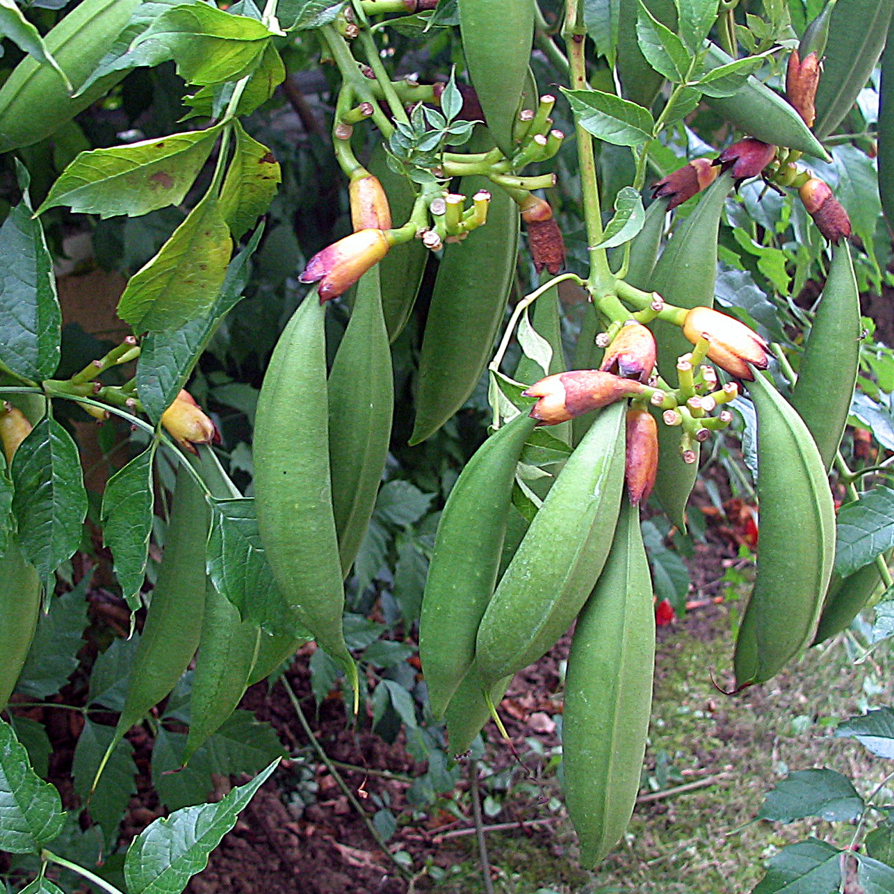 Campsis radicans unripe pods